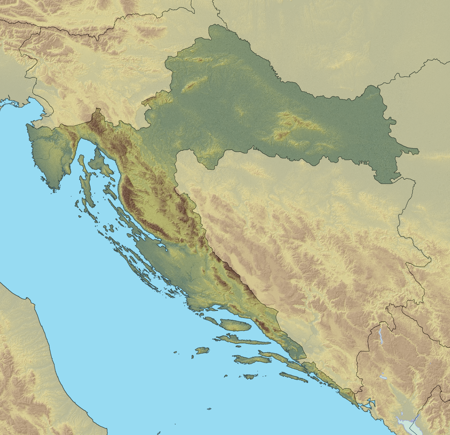 Relief map of Croatia. World Mercator projection N: 46.8° N S: 42.1° N W: 13.1° E E: 19.9° E